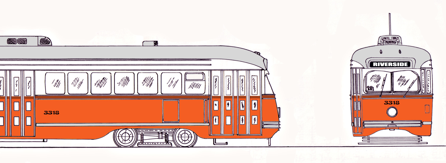 «Boston Elevated Railway Co. / MTA : Color scheme» (original caption) PCC streetcar in 1936 Boston Elevated Railway regalia. Streetcars operated in this color scheme until the introduction of the line color names in 1967, three years after the MBTA was formed.